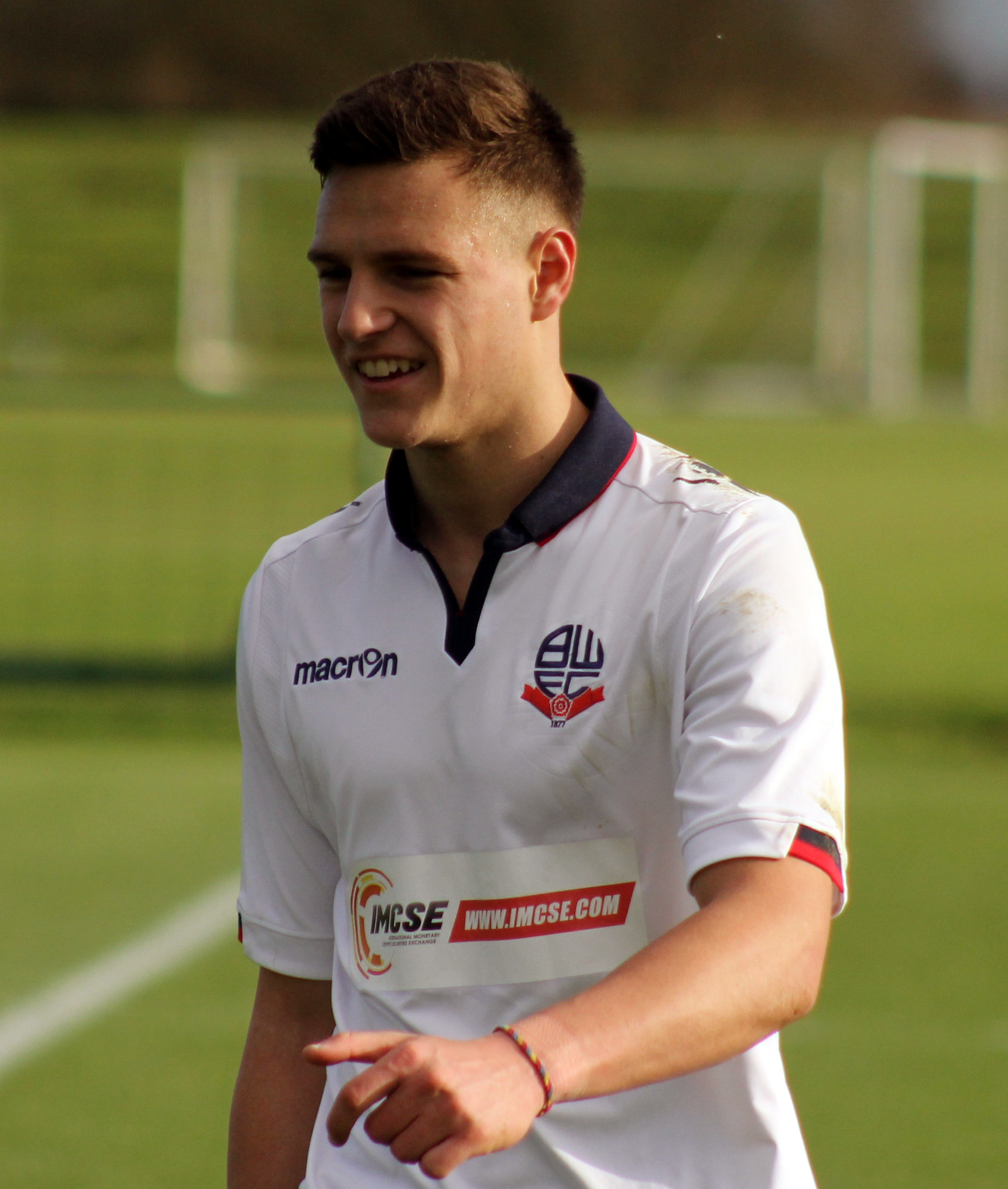 Bolton Wanderers U18s 0-0 Sheffield Wednesday U18s Premier League U18 Professional Development League North Saturday 11 November Eddie Davies Academy